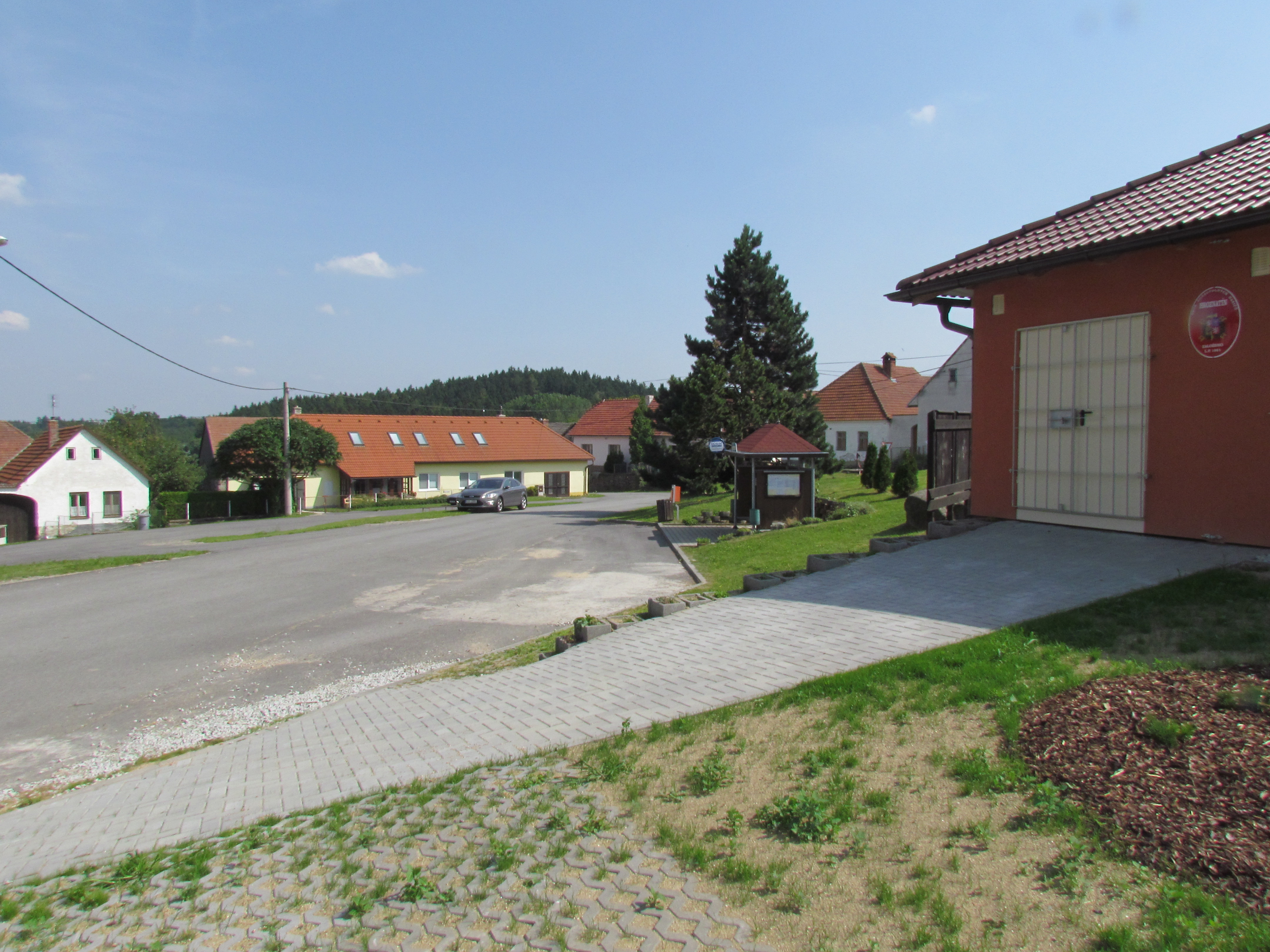 Center of Hroznatín, Třebíč District.